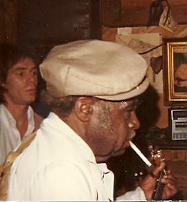 Henry Townsend at Burkhardt's Oyster Bar; St. Louis 1983